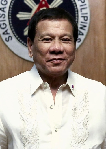 President Rodrigo Duterte poses for a photo with former House Speaker Jose de Venecia Jr. and Pangasinan 4th District Representative Gina de Venecia during a meeting at the Study Room in Malacañan Palace on March 7, 2017. RICHARD MADELO / Presidential Photo